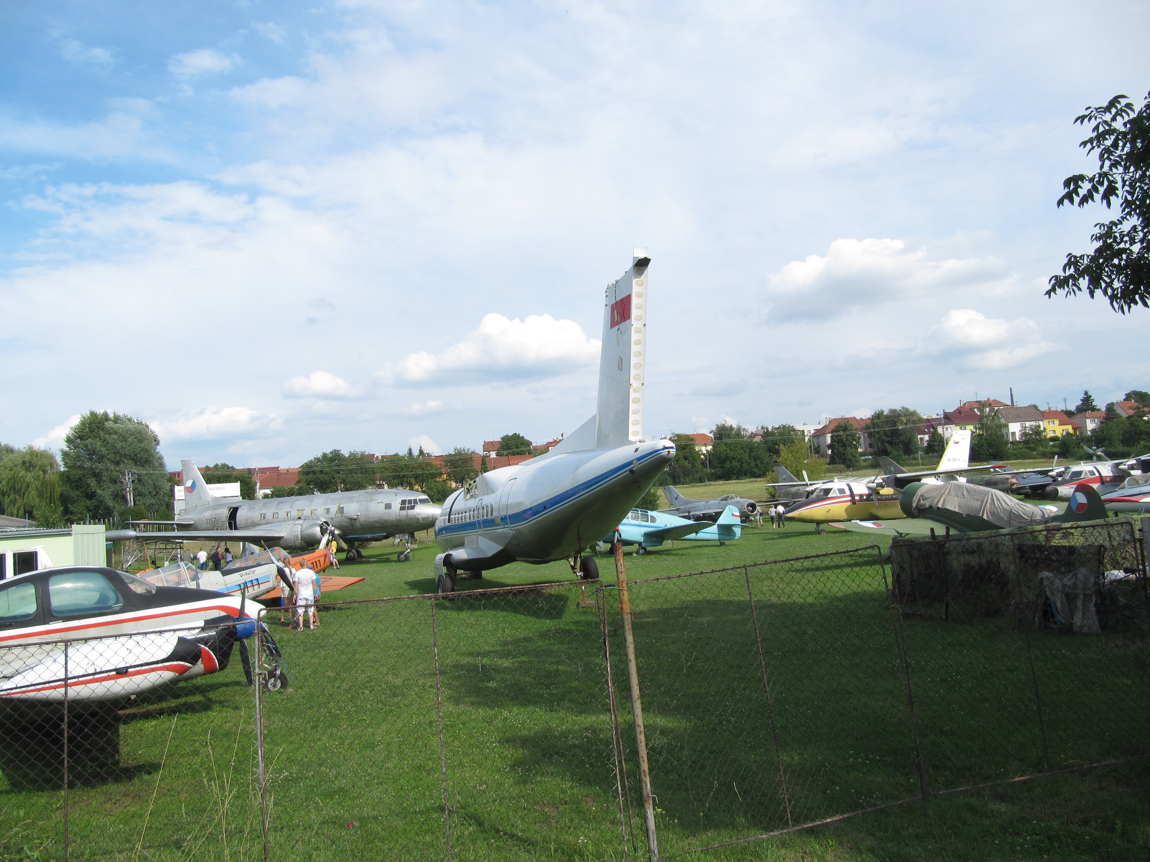 Kunovice in Uherské Hradiště District, Czech Republic. Museum of Aviation.